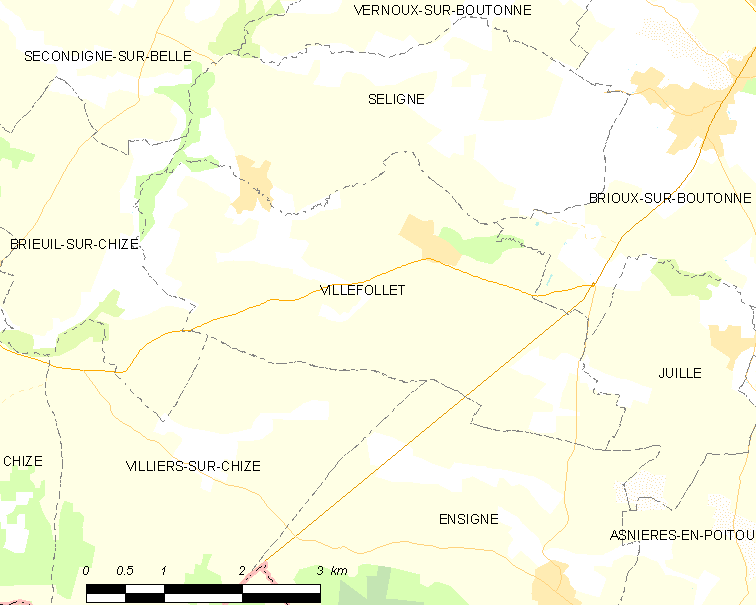 Map of French municipality Villefollet